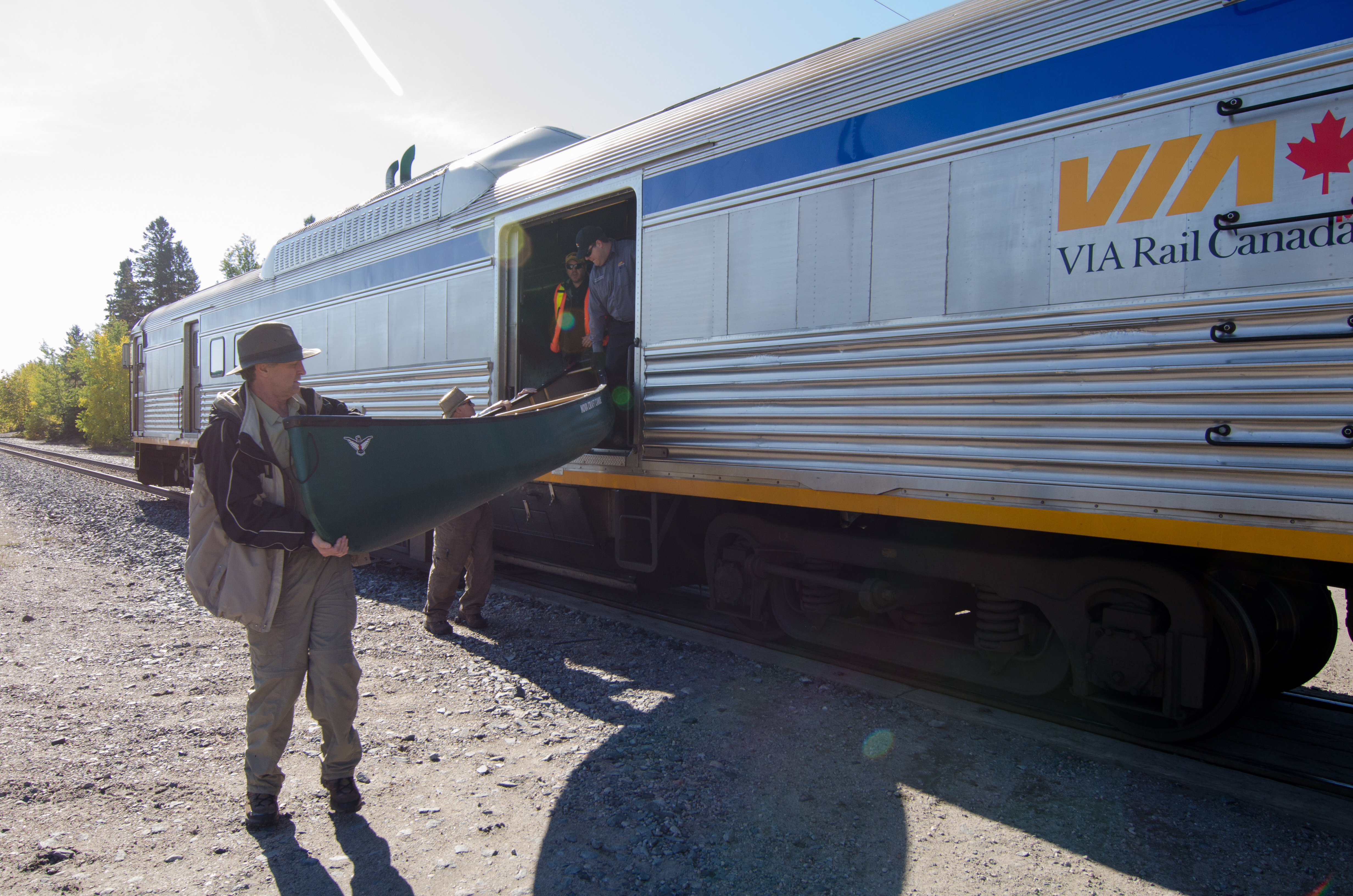 Unloading Canoe from VIA RDC Budd